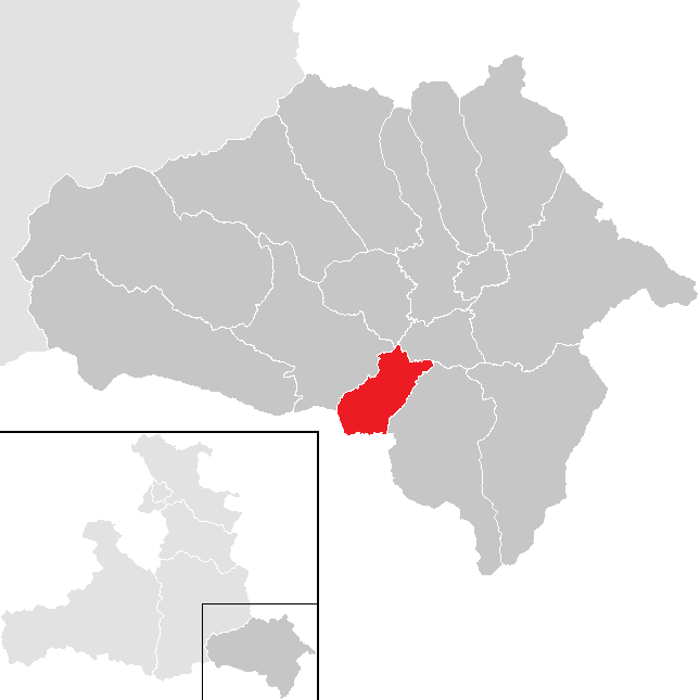 District Tamsweg